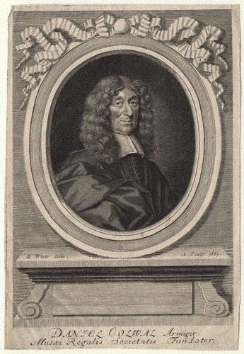 Portrait of Daniel Colwall (died 1690), merchant and philanthropist.